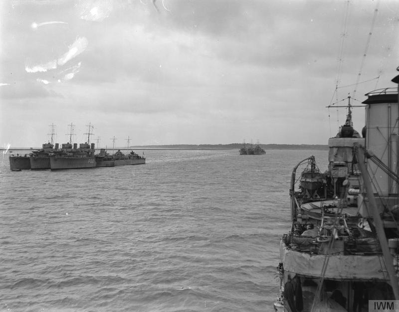 The British Naval Campaign in the Baltic, 1918-1919 Royal Navy torpedo boat destroyers at anchor at Libau (Liepaja). December 1918.